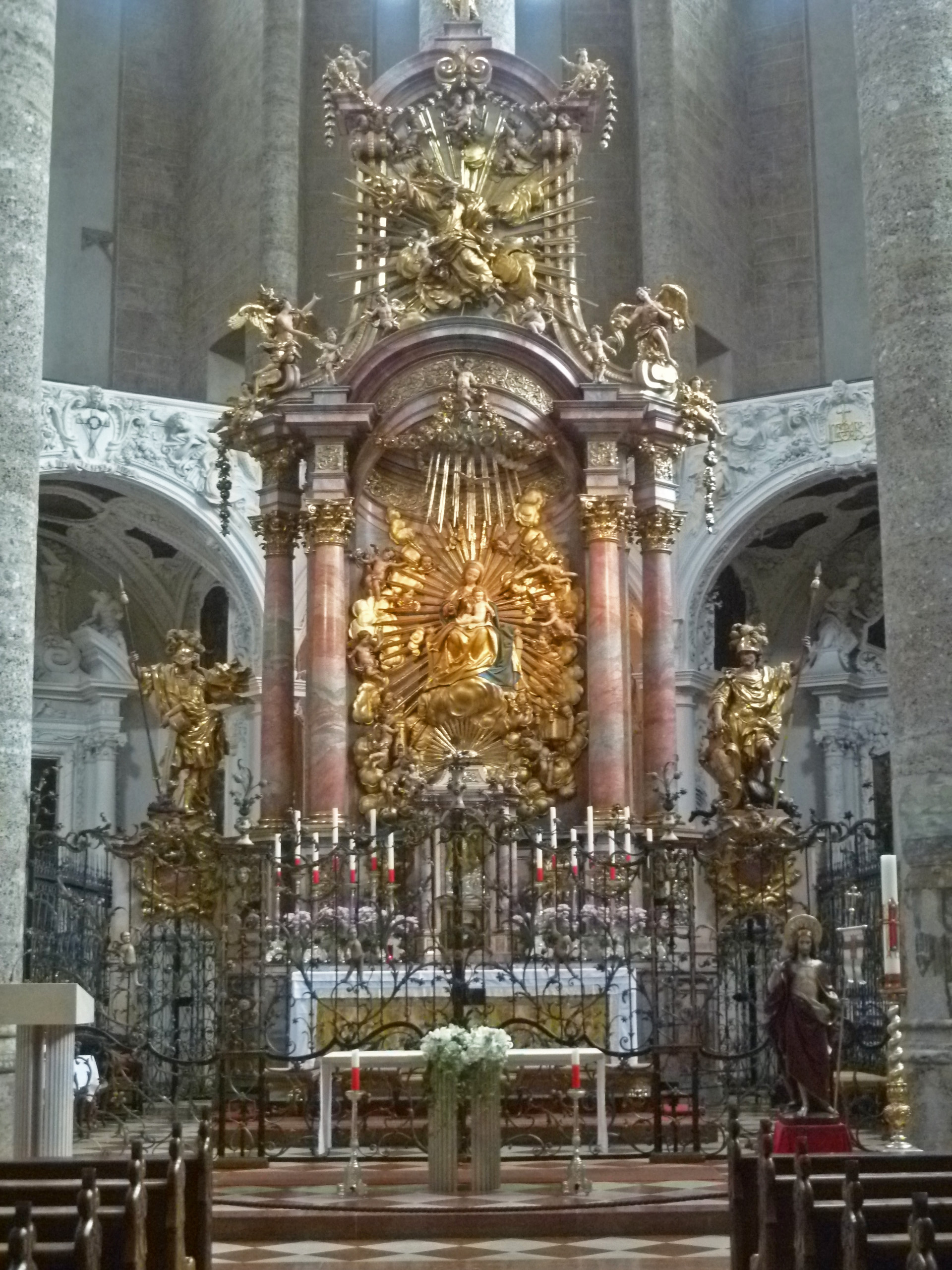 High altar (1708, by J.B. Fischer von Erlach) of the Franciscan church of Salzburg, Austria